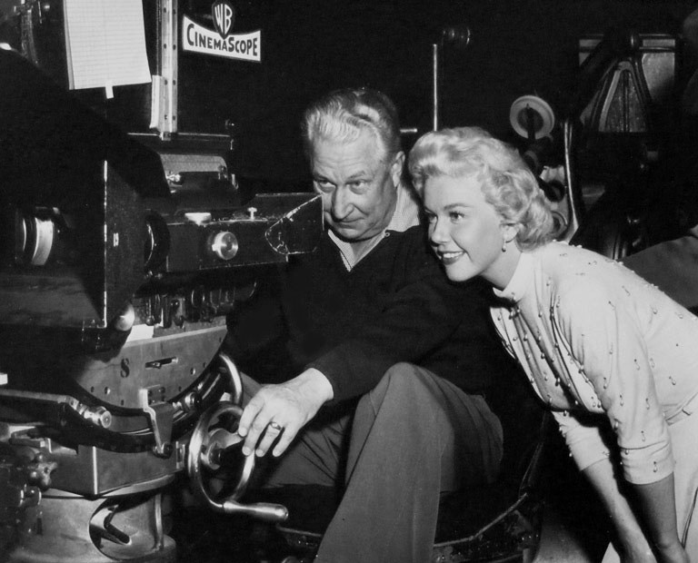 Wilfred M. Cline (cinematographer) and Doris Day, on the set of Lucky Me (1954) - publicity still